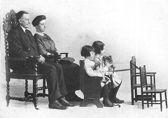 Sylvanus Stall with his daughter and his grandchildren. Illustration from With The Children On Sundays, 1911. Scan from Project Gutenberg edition, levels corrected and edges trimmed.